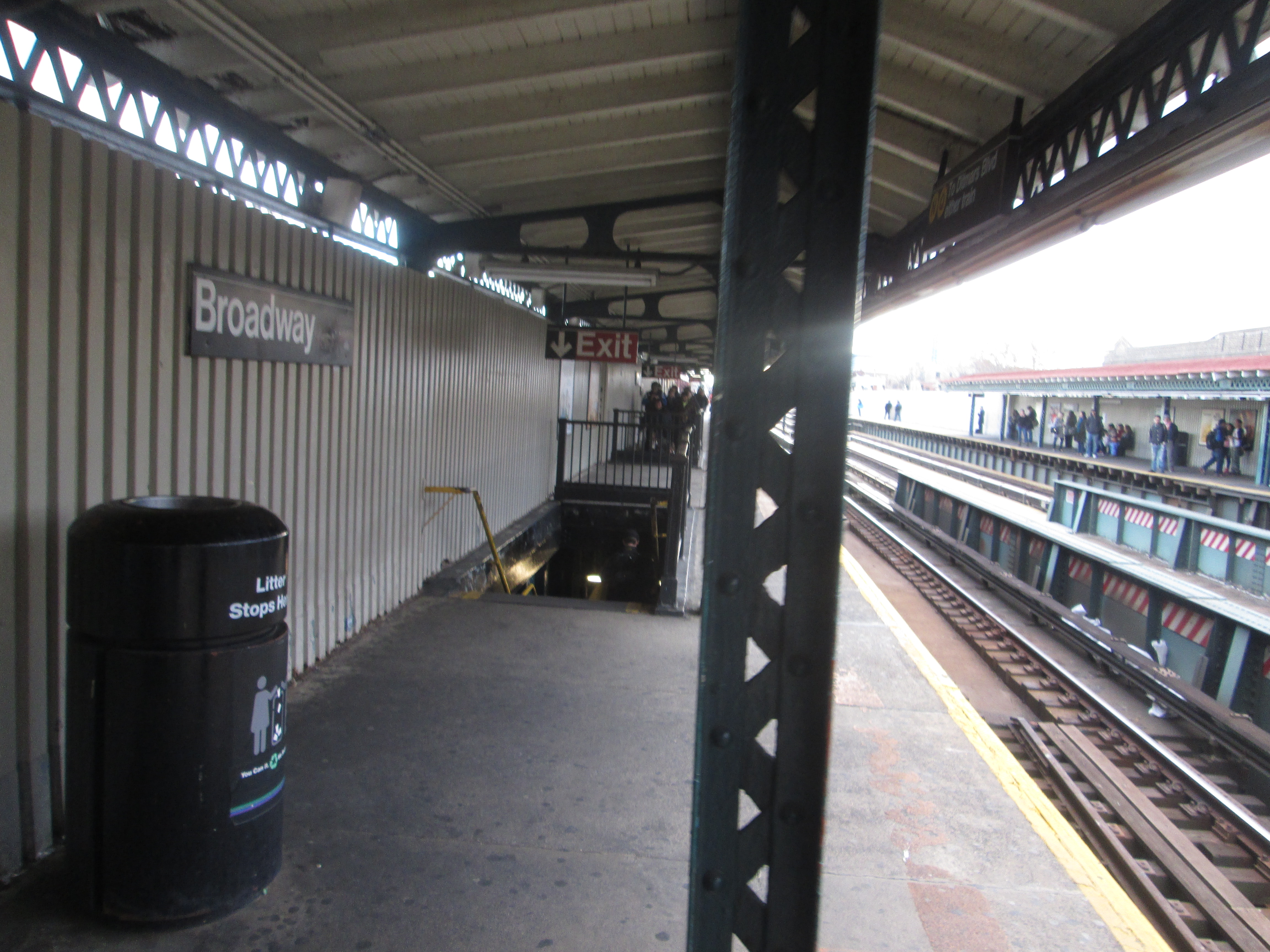 Astoria, Queens, New York